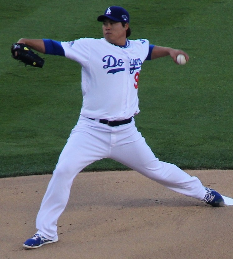 Hyun jin Ryu 2013 NLDS